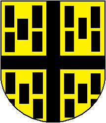 Coat of arms of Grandfontaine, Canton of Jura, Switzerland